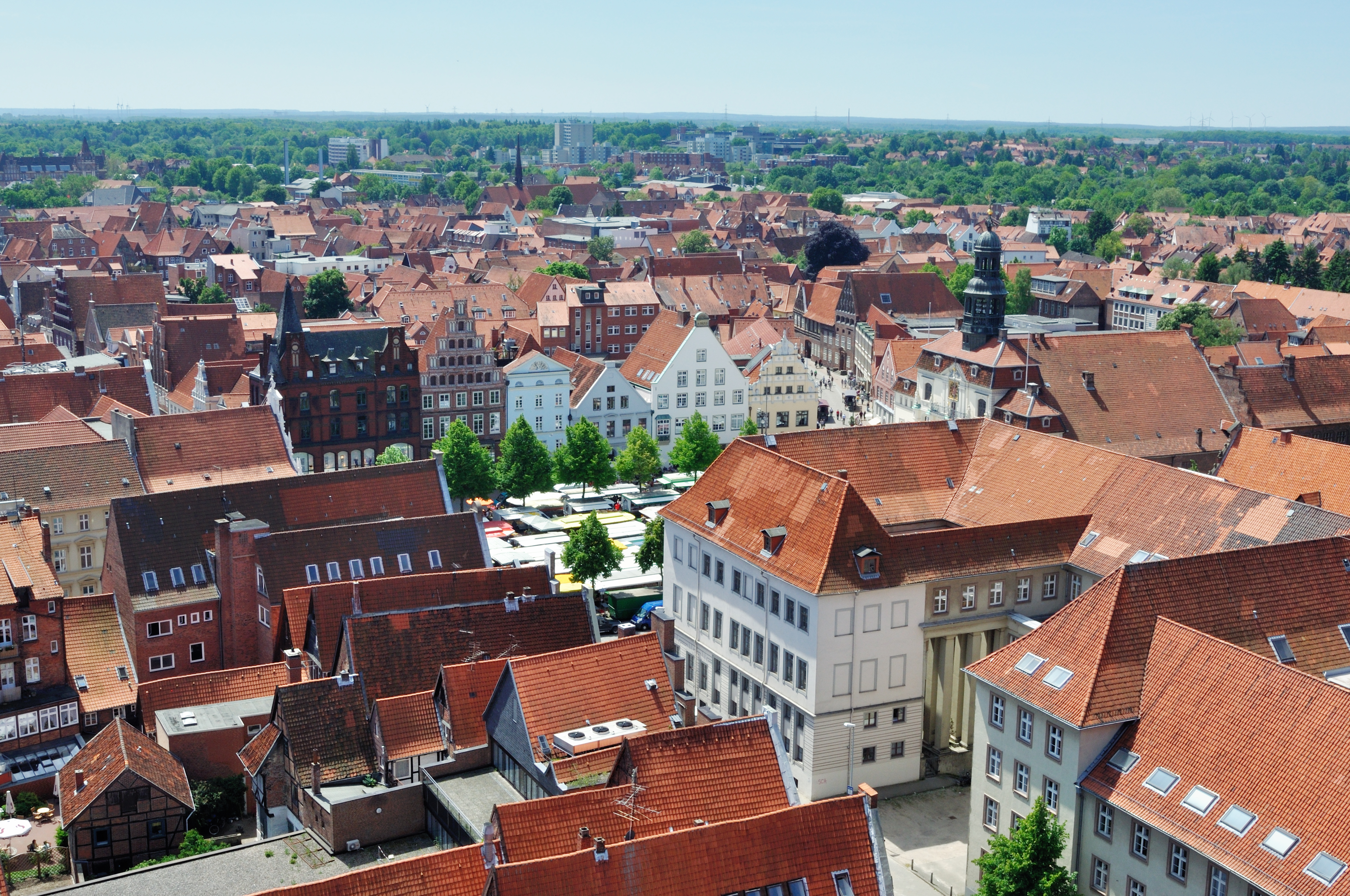 Picture taken in Lüneburg during Skillshare conference.